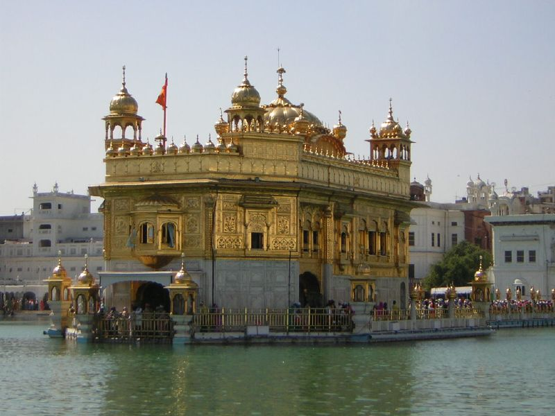 Harimandir Sahib ("Golden Temple") at Amritsar (Punjab, India)